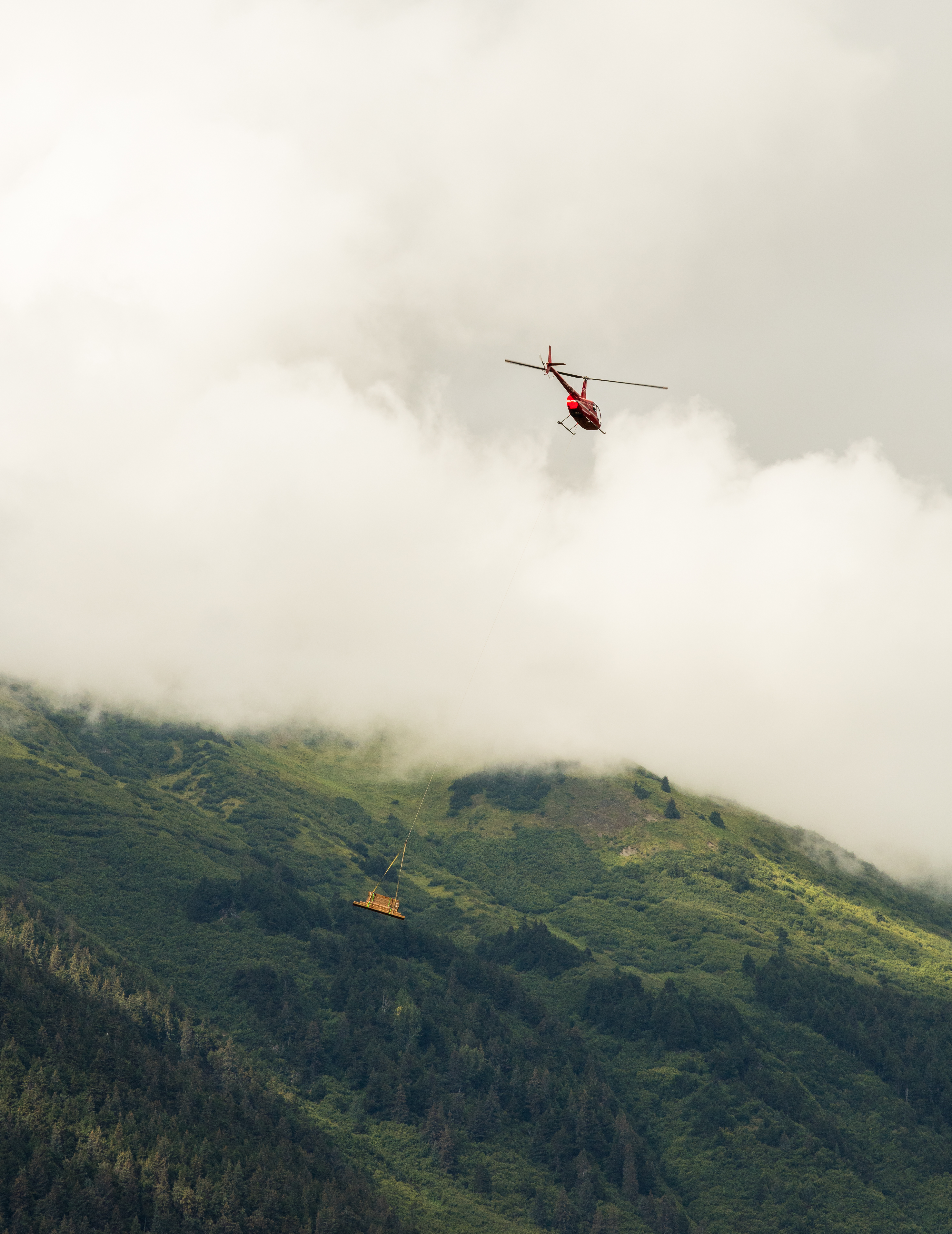 Robinson R44 helicopter, Portage, Alaska, USA